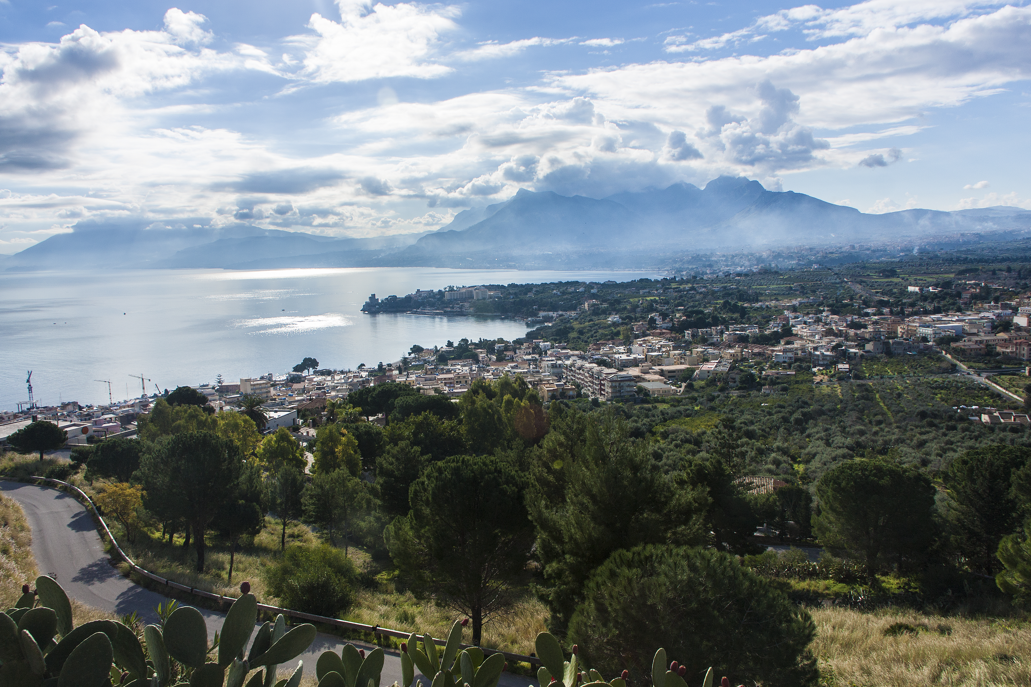 Santa Flavia from Solunto